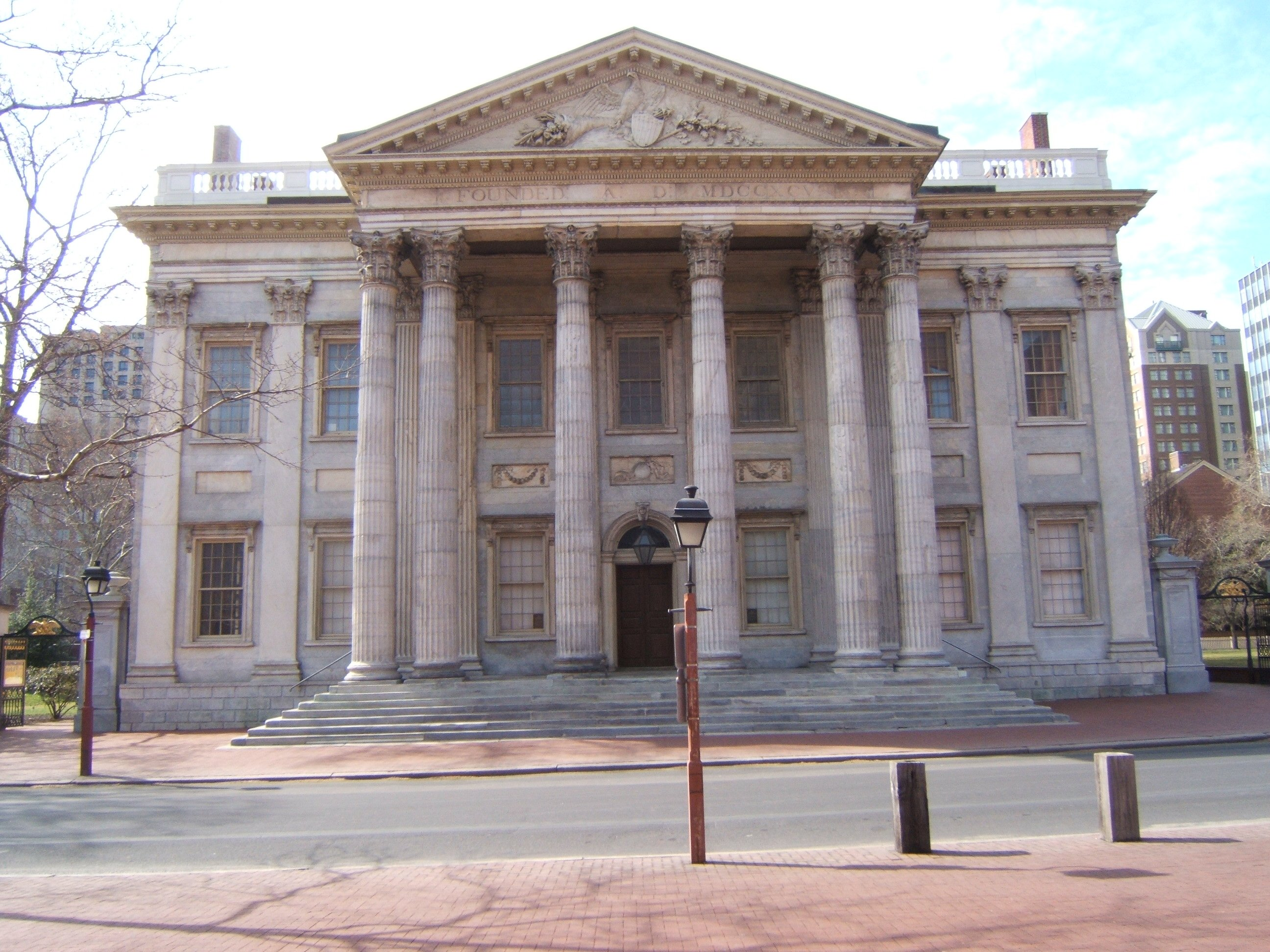 First Bank of the United States (1797-1811), Stephen Girard’s Bank (May, 1811-1831), subsequent banks, and owned since 1955 by the National Park Service. Location: 116 South 3rd Street, Philadelphia, PA 19106.